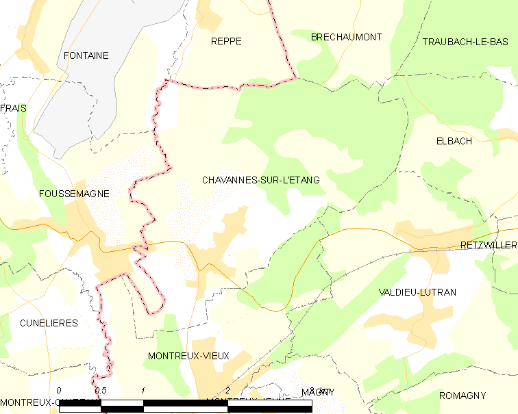 Map of French municipality